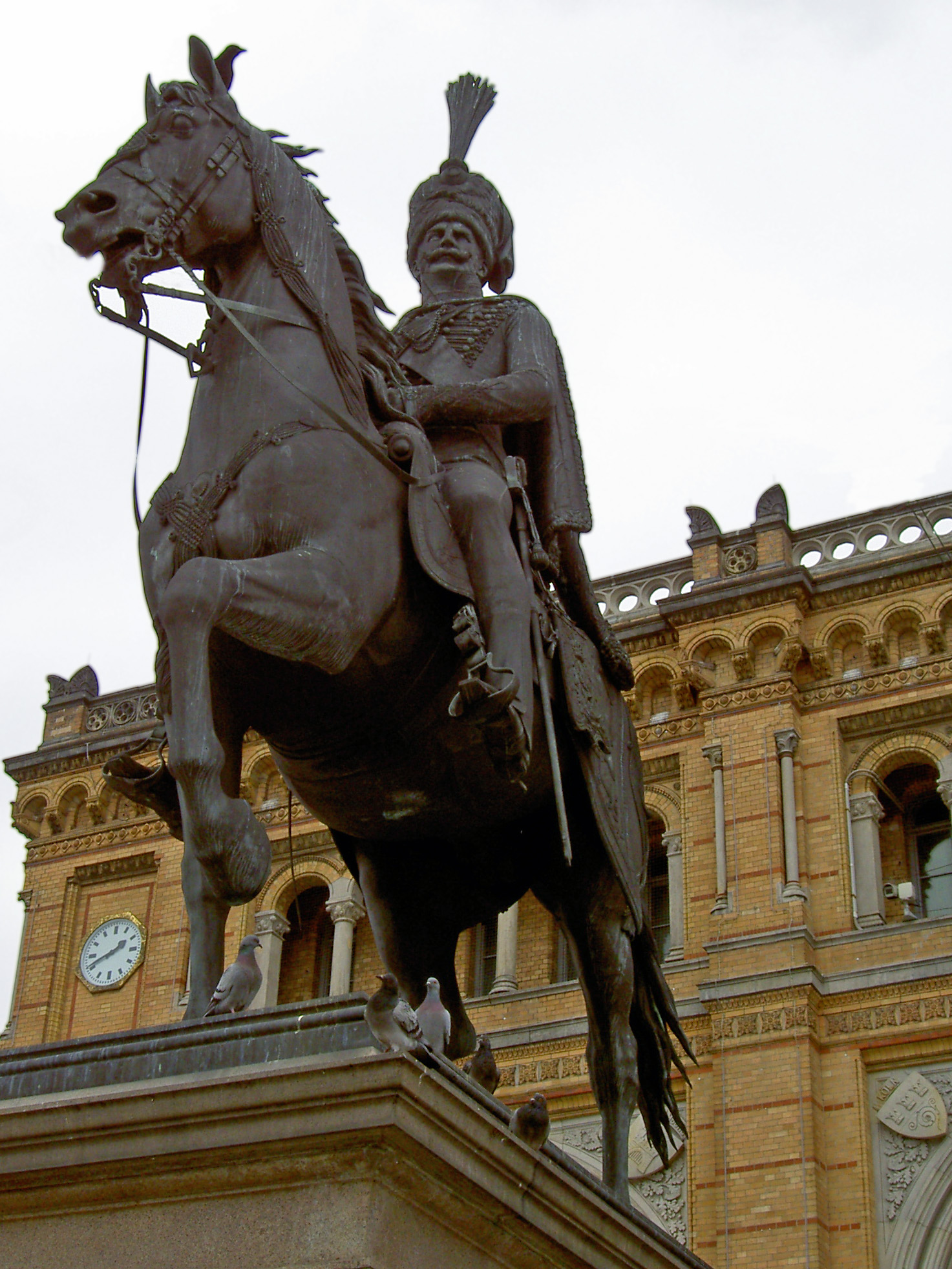 Ernst August memorial, after a model by Christian Daniel Rauch sculpted by Albert Wolff